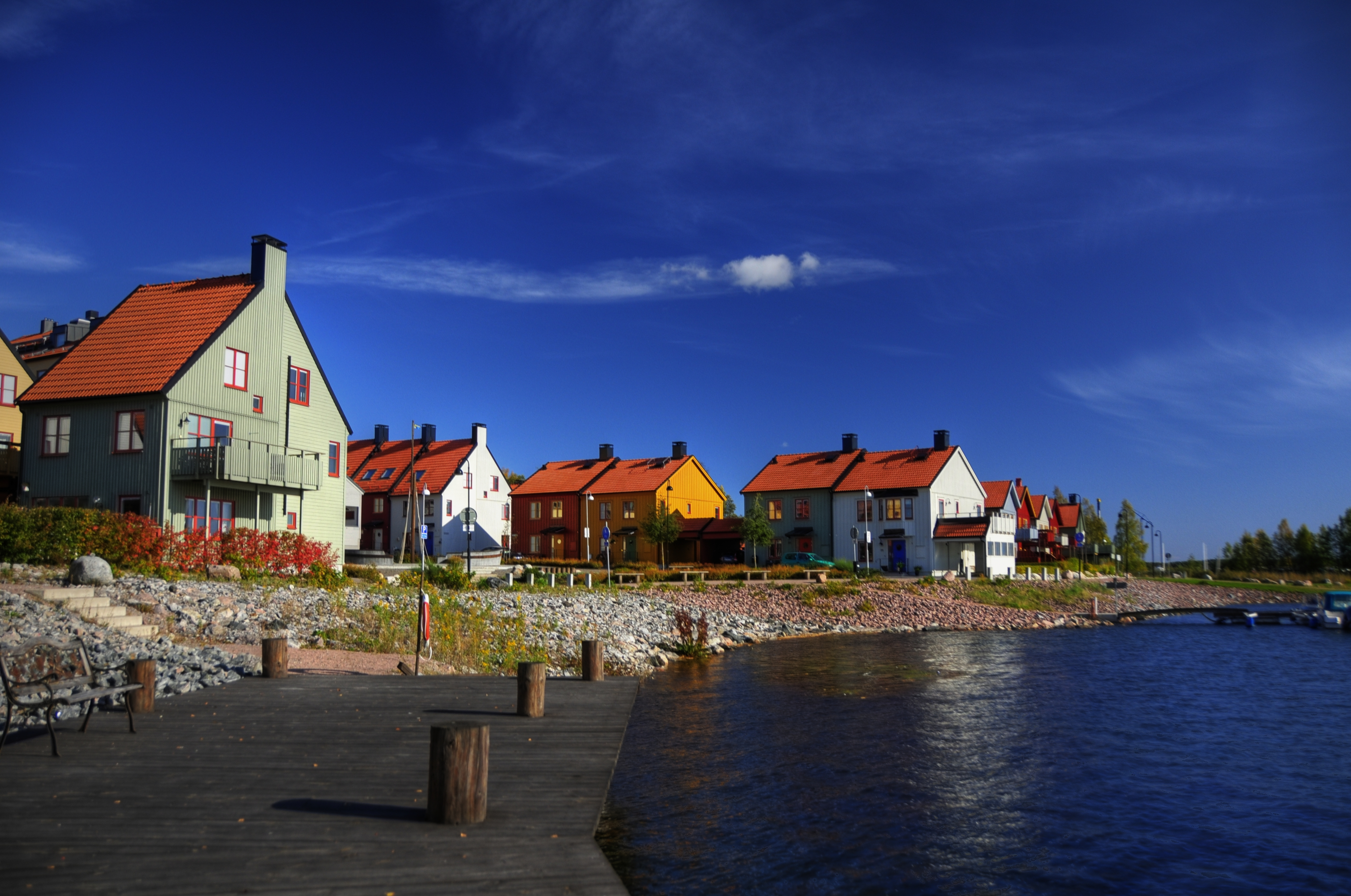 Typical housing in Nyköping.